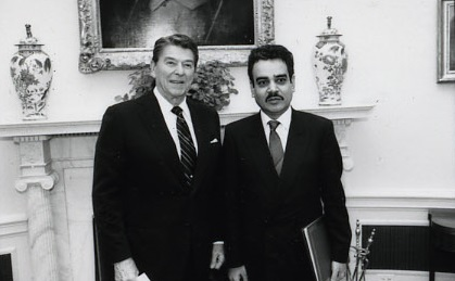 Nizar Hamdoon presented credentials as ambassador from Iraq to Ronald Reagan in the Oval Office March 5, 1985.